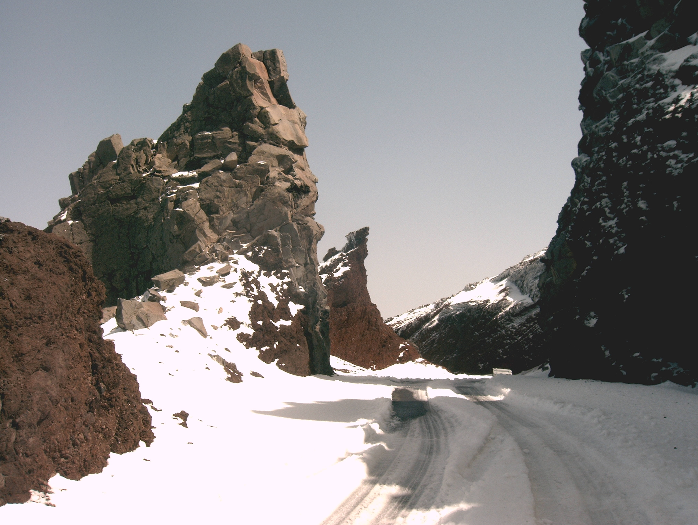 Country road LP-4 at Roque de los Muchachos